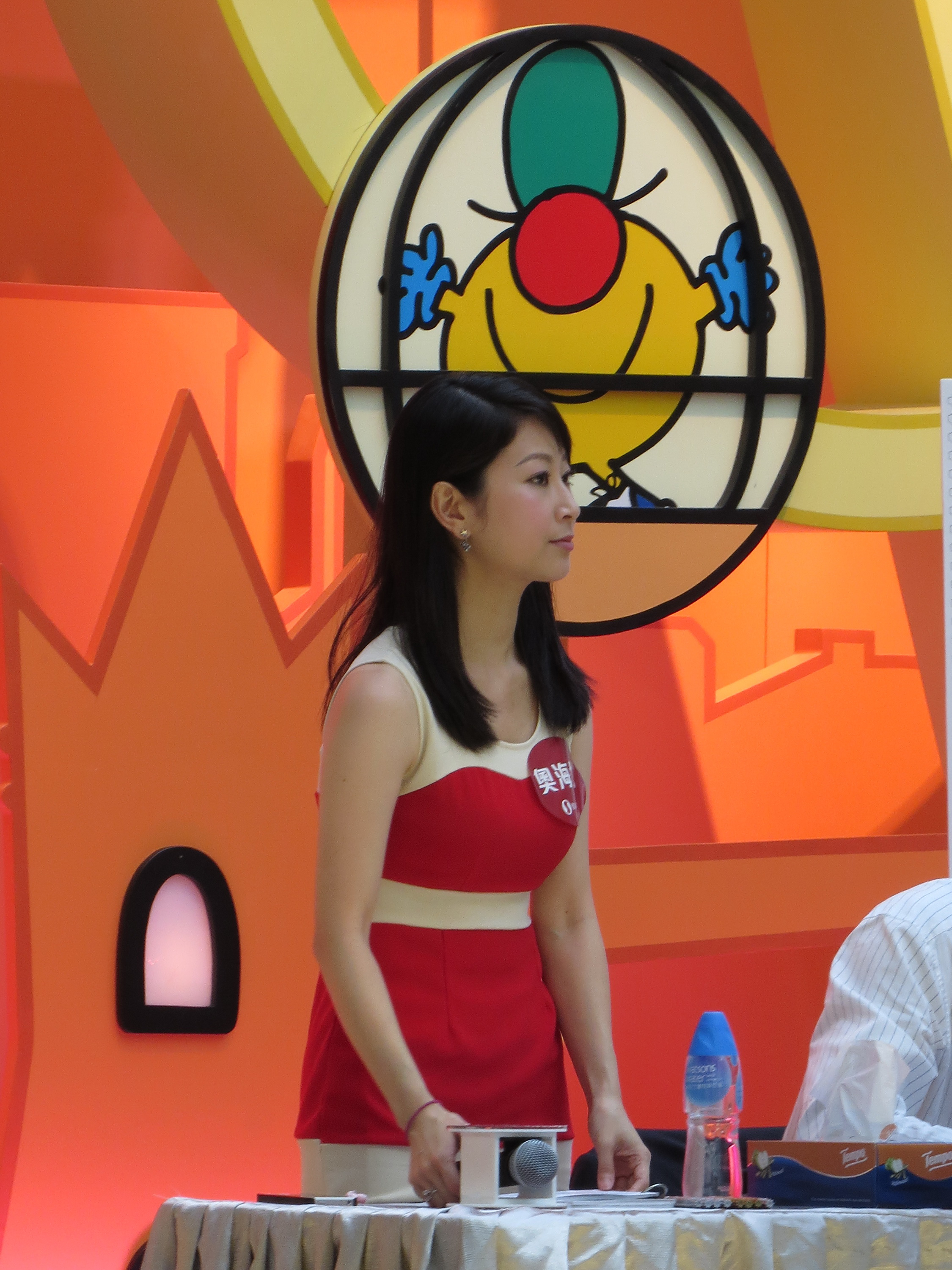 Apple, a former DJ of the Metro Broadcast Corporation Limited, Hong Kong.